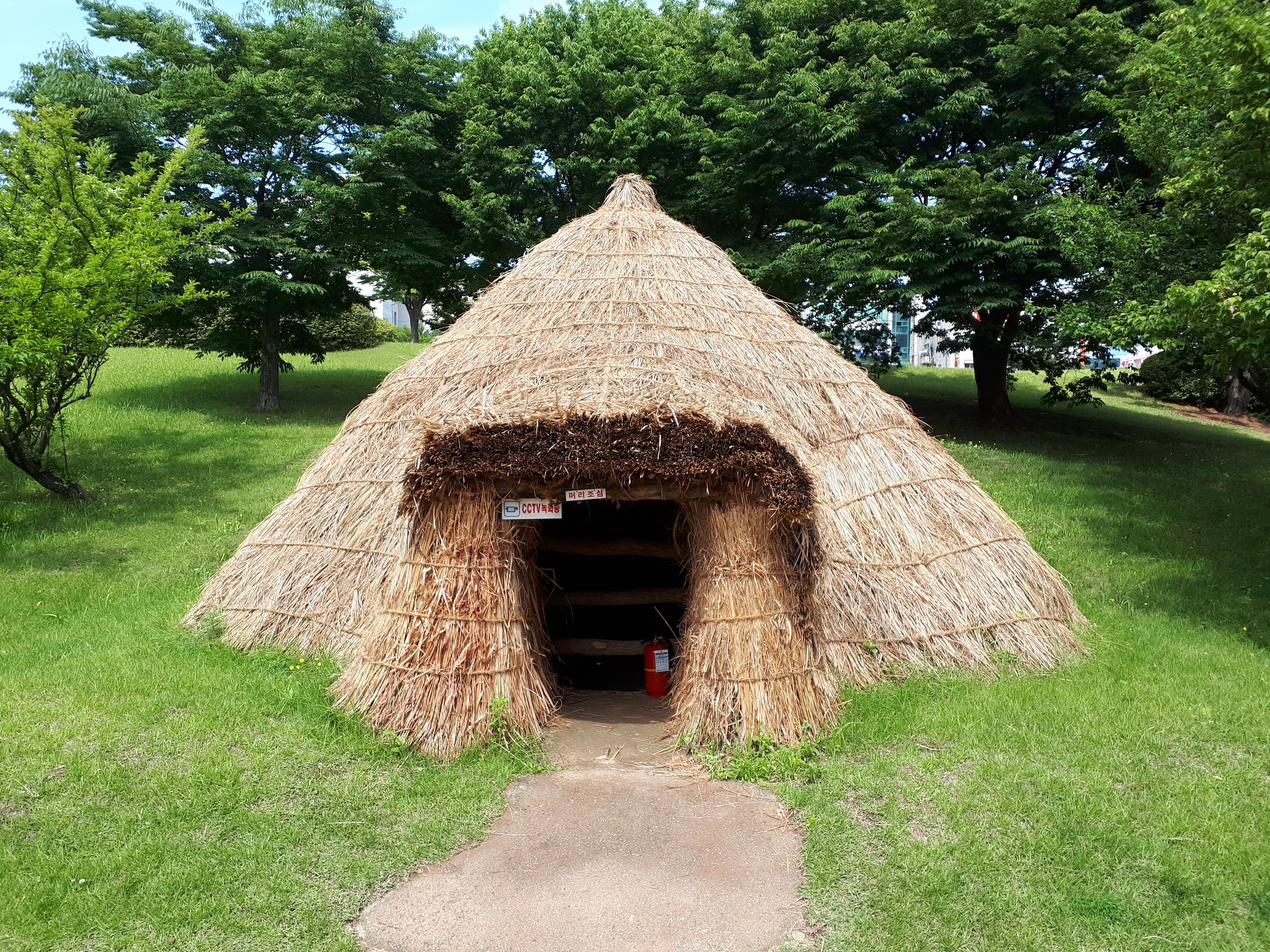 Bronze-age Pit House No.2 in Dunsan prehistoric site